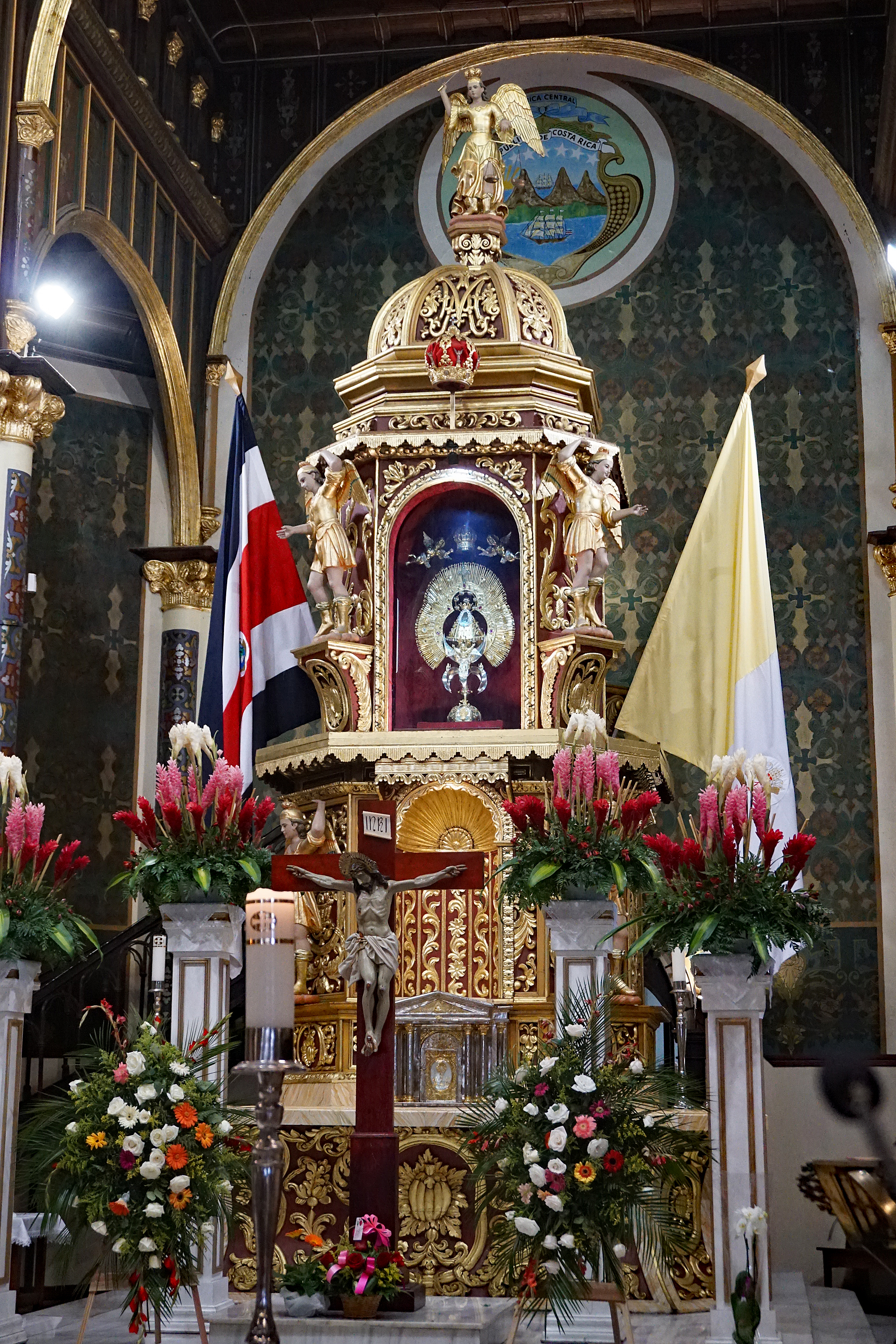 Our Lady of the Angels, Costa Rica's Patron Virgen in display at the main altar of Our Lady of the Angels Basilica, Cartago, Costa Rica.